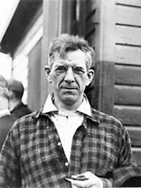 Benton MacKaye and Myron Avery. Copyright is held by the Appalachian Trail Conservancy.